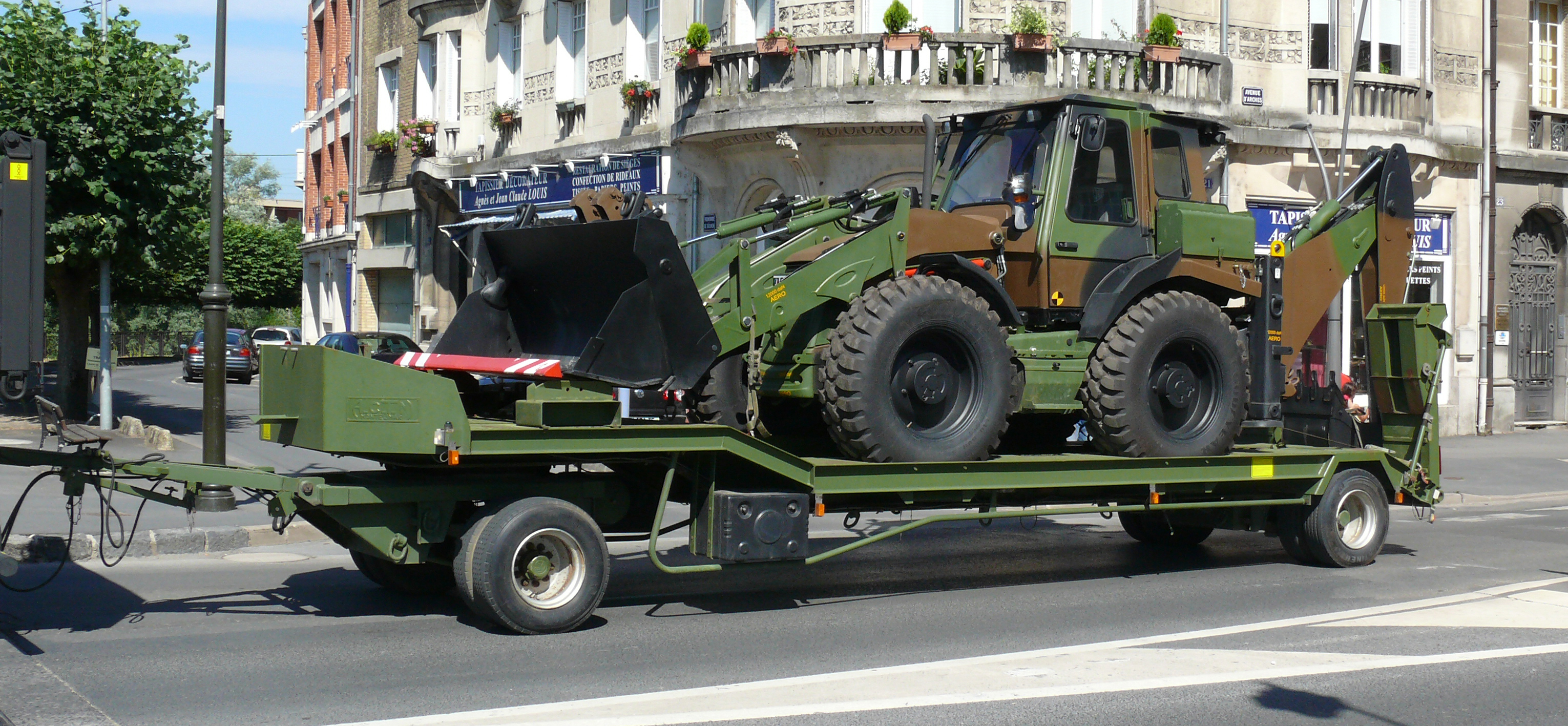 Matériel Polyvalent du Génie MPG of the 3rd regiment engineers, 1st Mechanised Brigade of the French Armée de Terre during the Bastille Day Parade in Charleville Mézières, 2010.